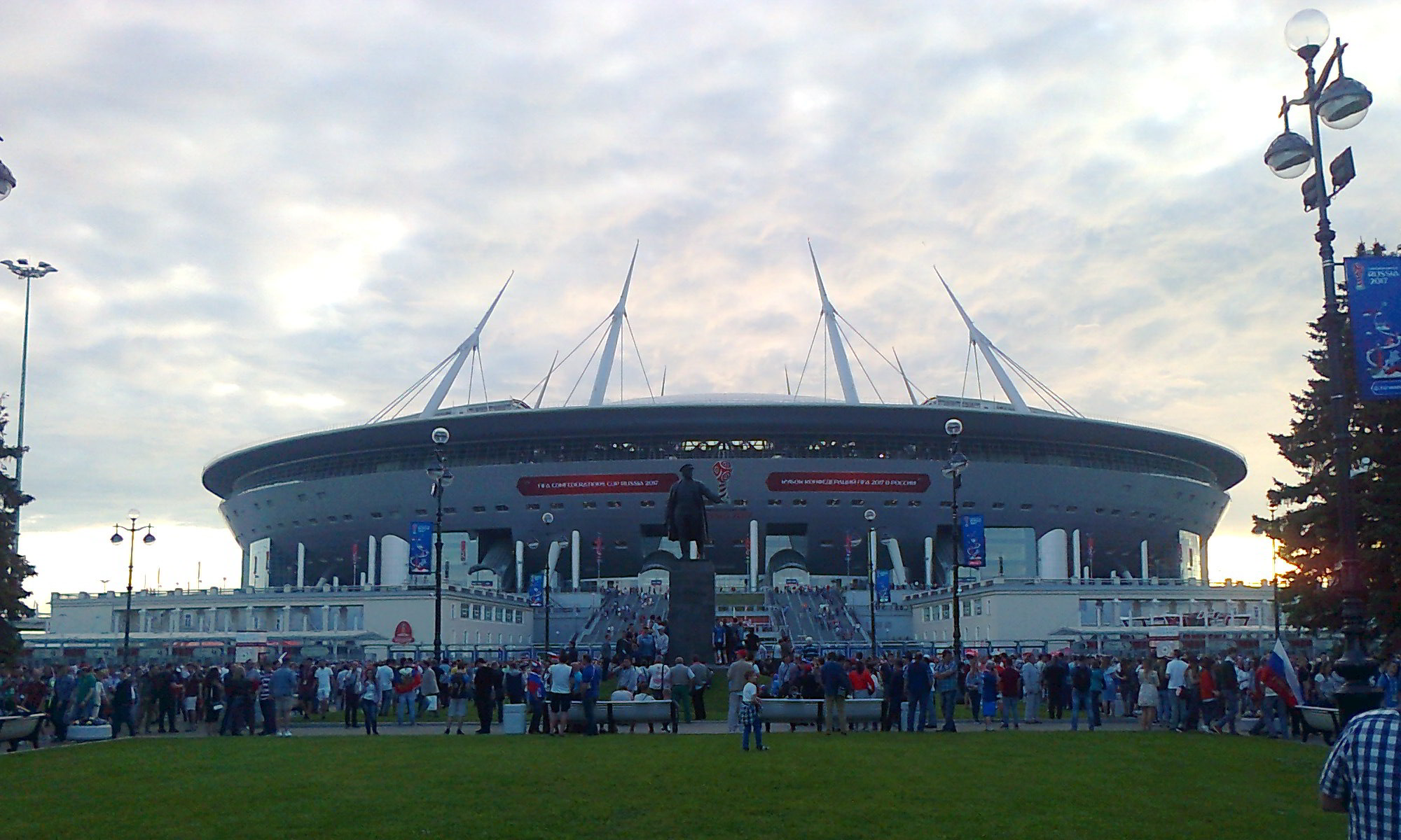 The monument to Sergei Kirov (1886–1934) is the only reminder about this Soviet statesman, who in 1932 initiated the construction of the Kirov Stadium in Leningrad — demolished in 2006 to erect the present-day Krestovsky Stadium in its place